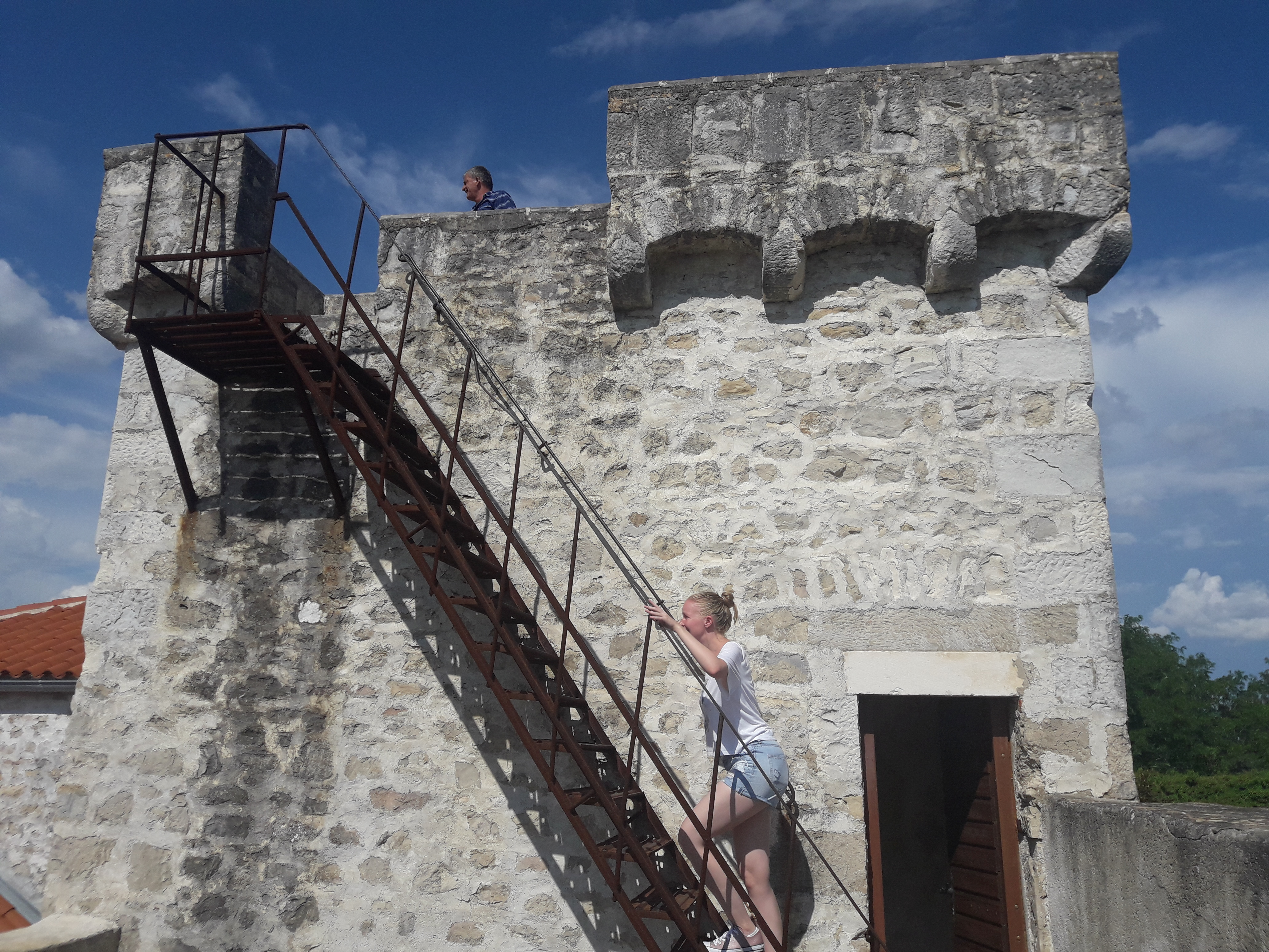 Kula Jankovic, the fort in which lived Stojan Jankovic and his descendants, now owned by the Desnica family.